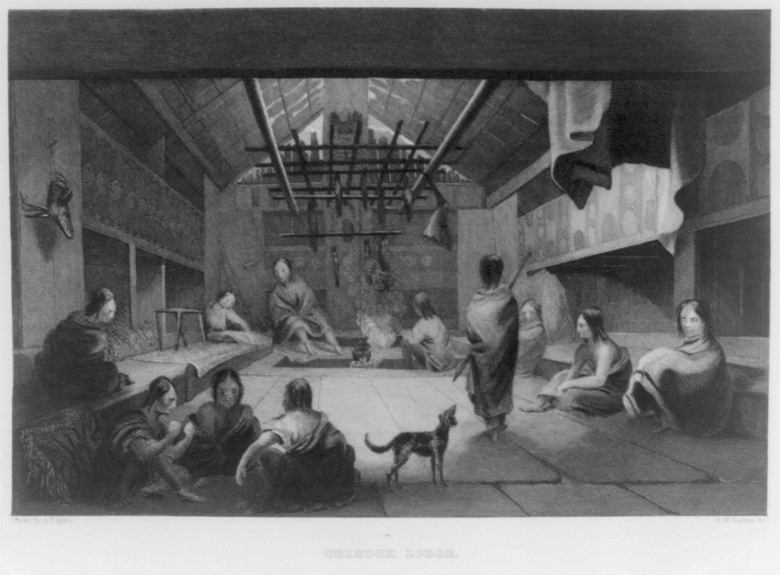 Chinook Lodge Artist: A.T. Agate Engraver: R.W. Dodson